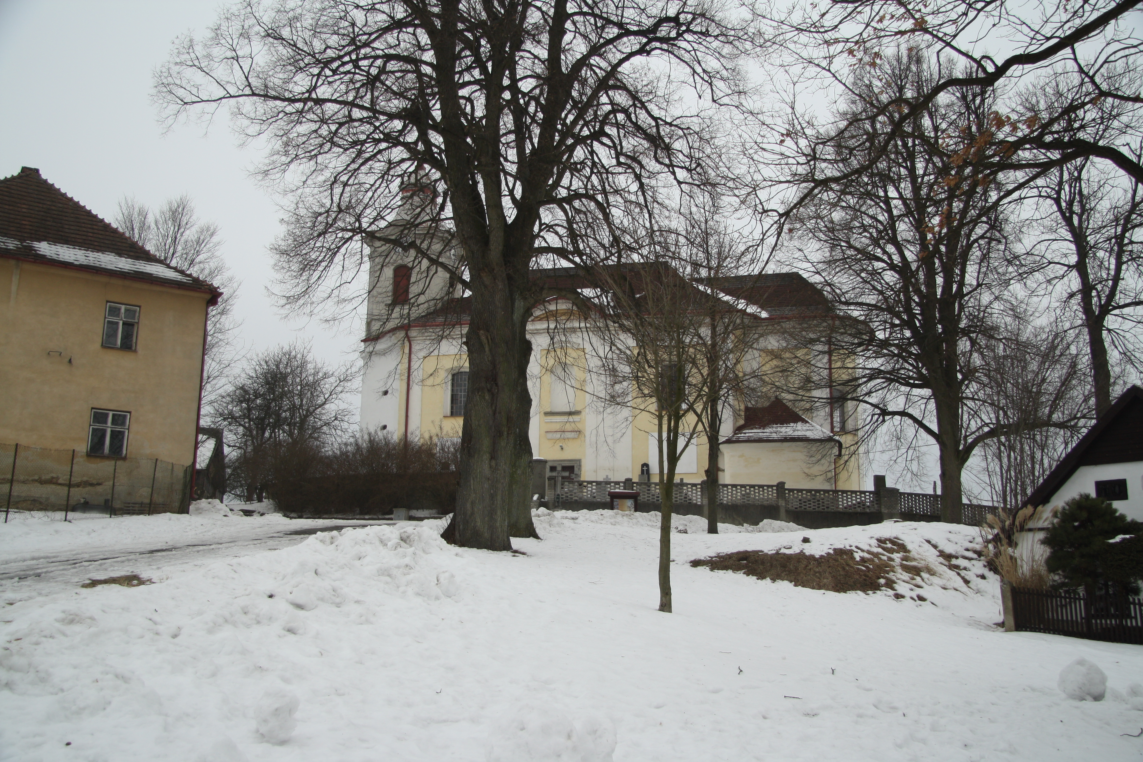 Center with Church of Saint Bartholomew in Dušejov, Jihlava District.